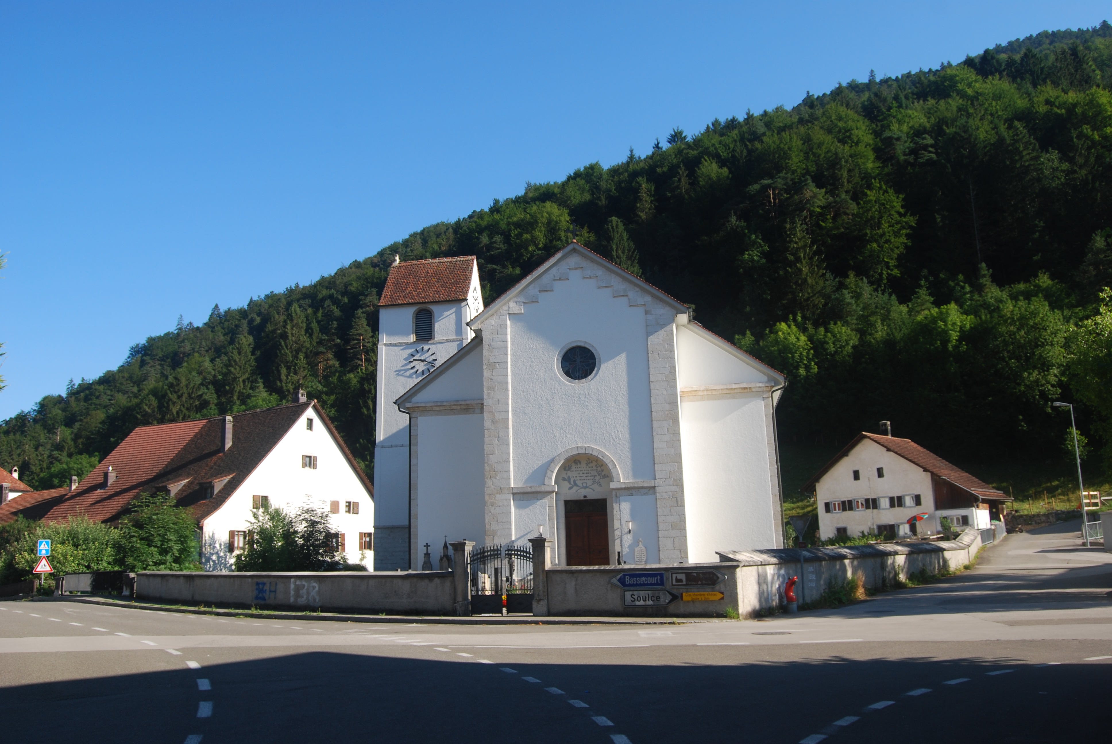 Church of Undervelier, canton of Jura, Switzerland